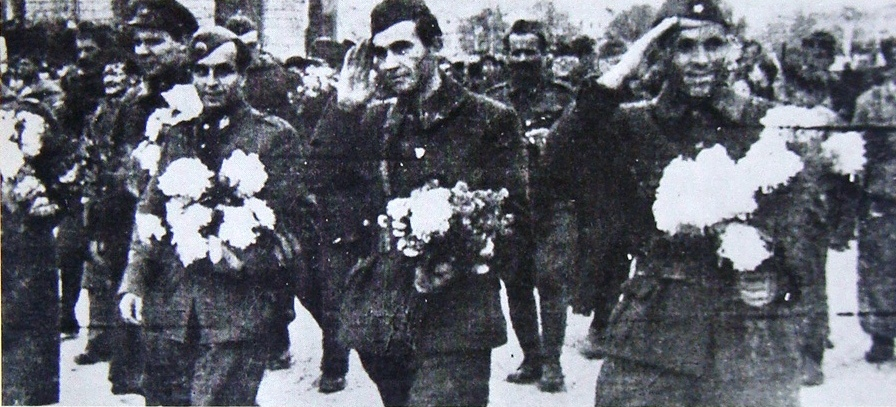 Celebration welcoming the heads of NOV and POM, a week after the liberation of Skopje on November 13. (20 November 1944) This media file is produced by Wikipedian in Residence in Category:Wikipedian in Residence at DARM in 2016.